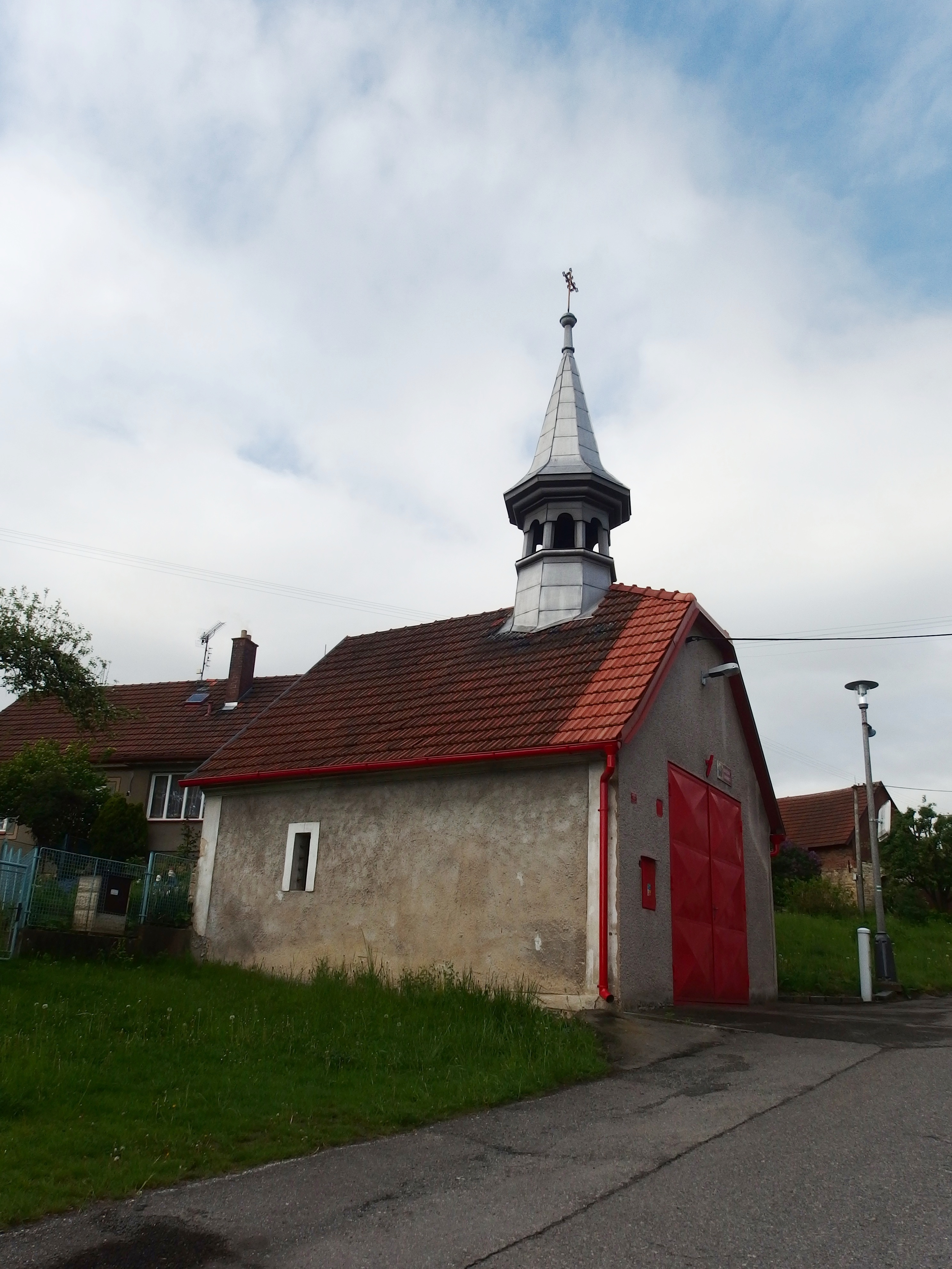 Zádolí, Ústí nad Orlicí District, Czech Republic.